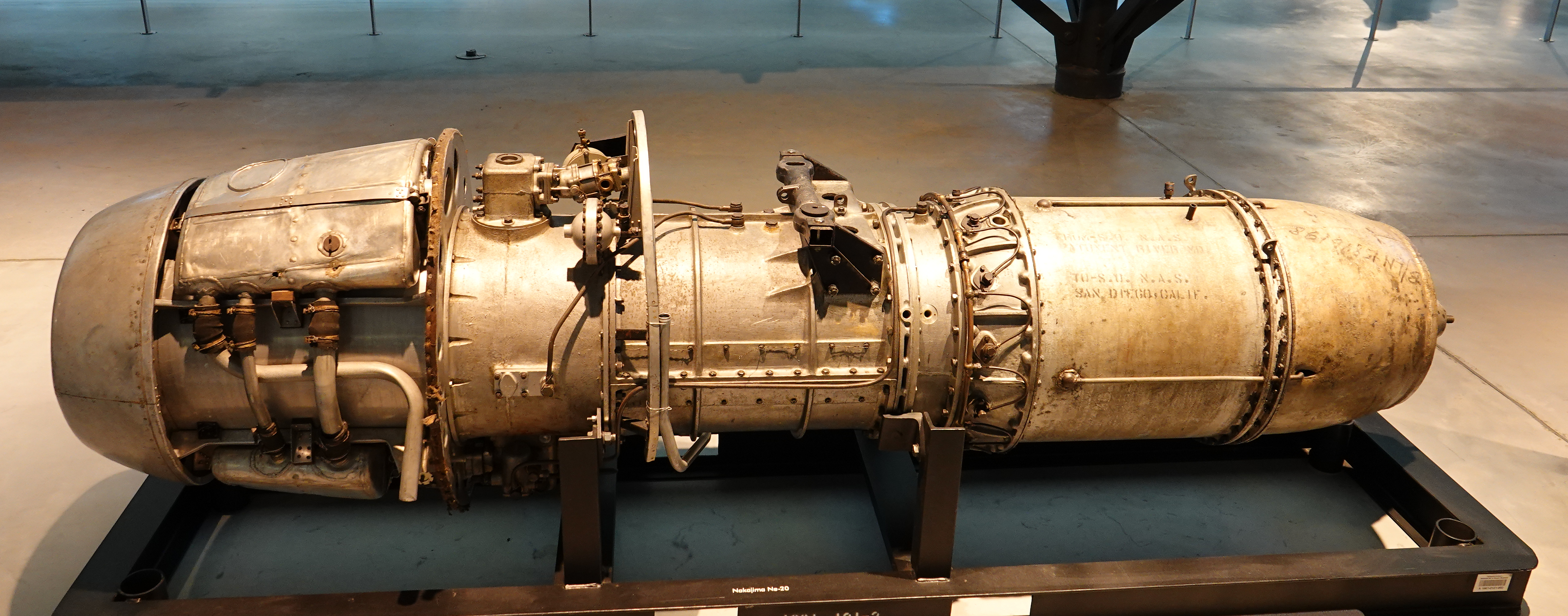 The Naval Air Technical Arsenal, Kugisho, designed and manufactured the Ne-20 for Japan’s first jet aircraft capable of taking off under its own power, the Nakajima Kikka (Orange Blossom). The project was a hurried response to Japan’s loss of air superiority at the 1944 Battle of the Marianas. The Ne-20 was an indigenous design, but the German BMW 003 turbojet engine was a major influence. The first flight of the twin-engine Kikka was on August 7, 1945. Test pilots attempted a second flight before the Japanese surrender on August 15. Only few of the engines under construction were saved. This one was removed from the second aircraft prototype, which was confiscated by American forces at the end of World War II. Picture taken at the National Air and Space Museum's Steven F. Udvar-Hazy Center in Chantilly, Virginia, USA. Type: turbojet Thrust/speed: 4,657 N (1,047 lb) at 11,000 rpm Compressor: annular Turbine: 1-stage axial flow Manufacturer: Naval Air Technical Arsenal, Kugisho, Yokosuka, Japan